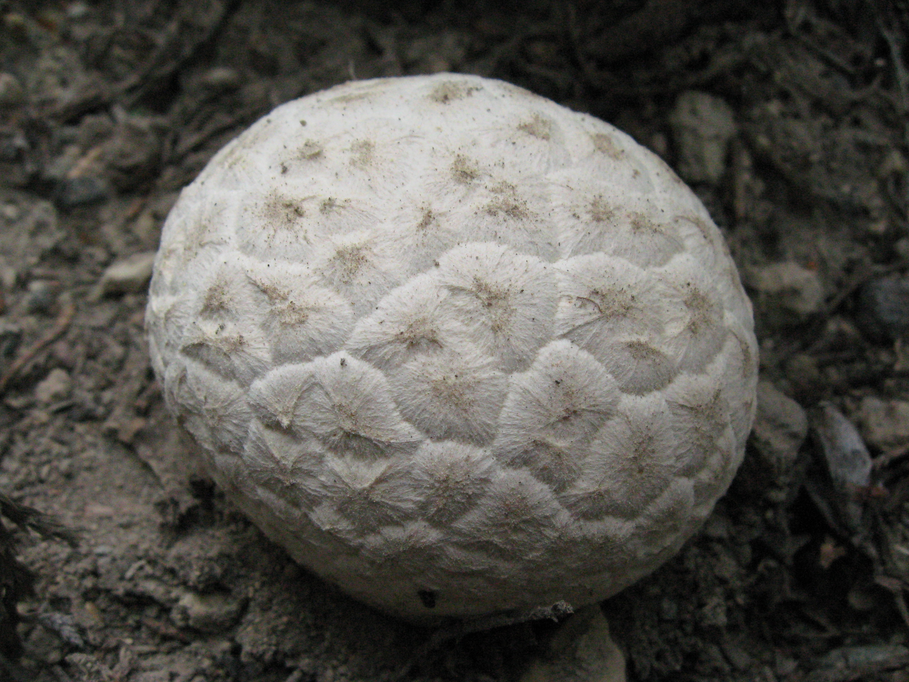 The edible puffball Calbovista subsculpta − Morse ex Seidl. Specimen photographed in Eastern Shasta-Trinity National Forest, northern California, U.S.